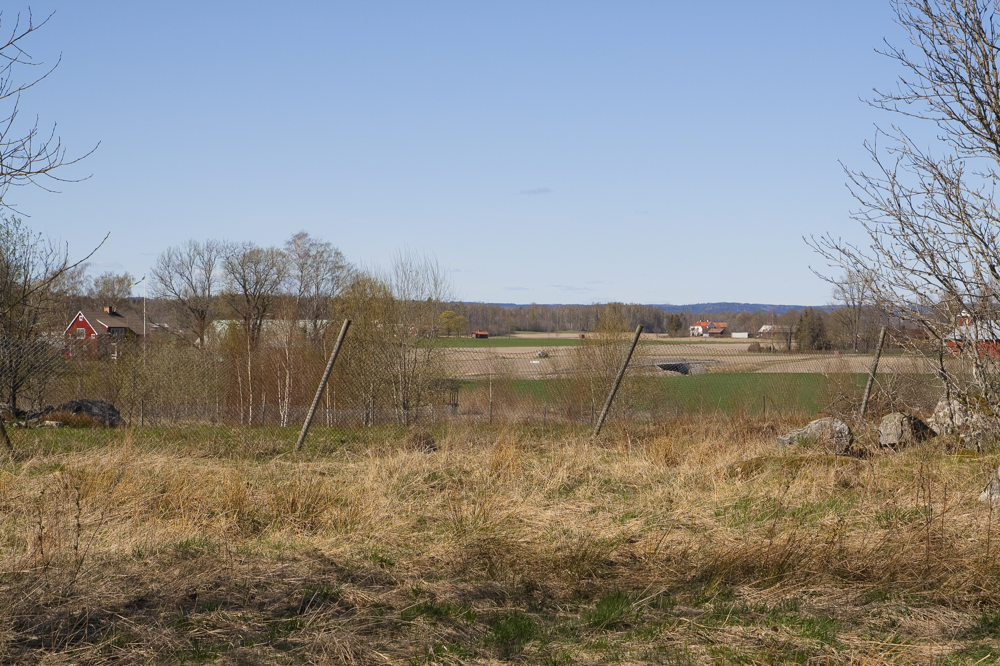 Folkavi in Örebro county.